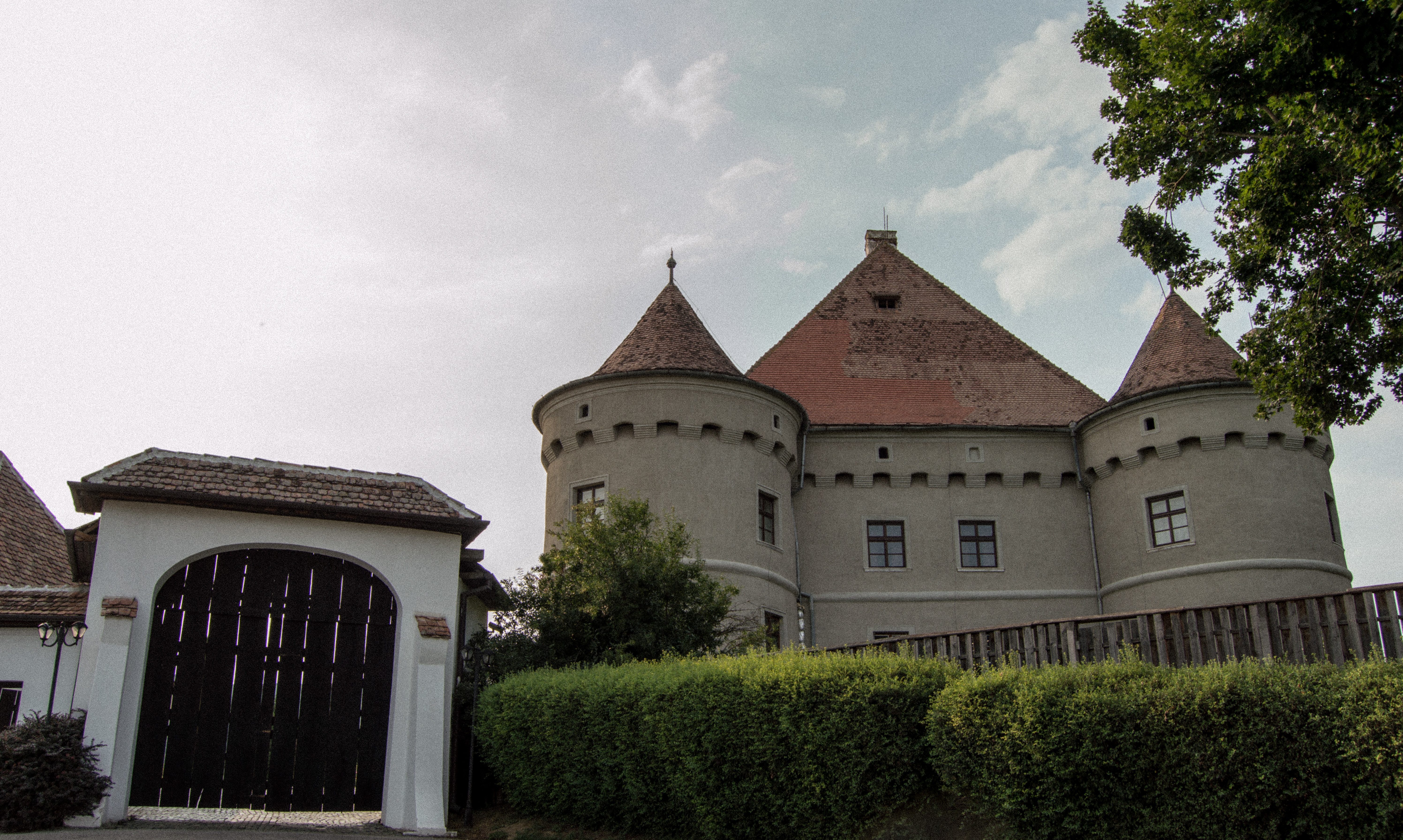 Bethlen - Haller Castle, Cetatea de Baltă/Küküllővári/Kokelburg